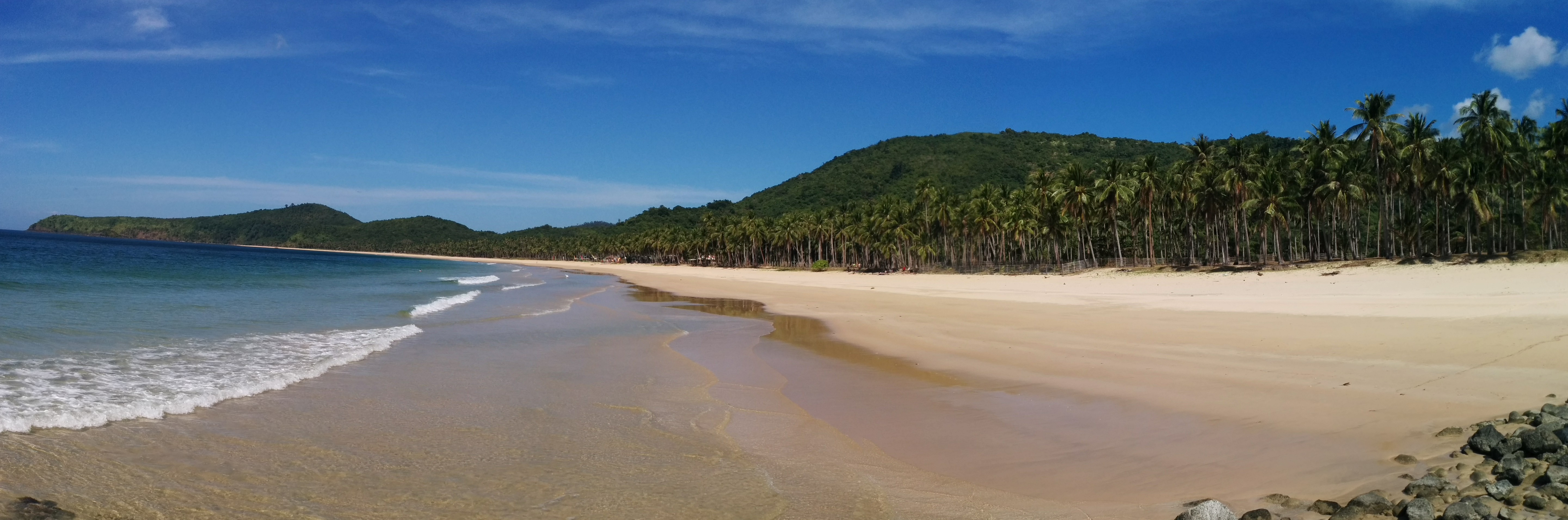 El Nido - Nacpan Beach